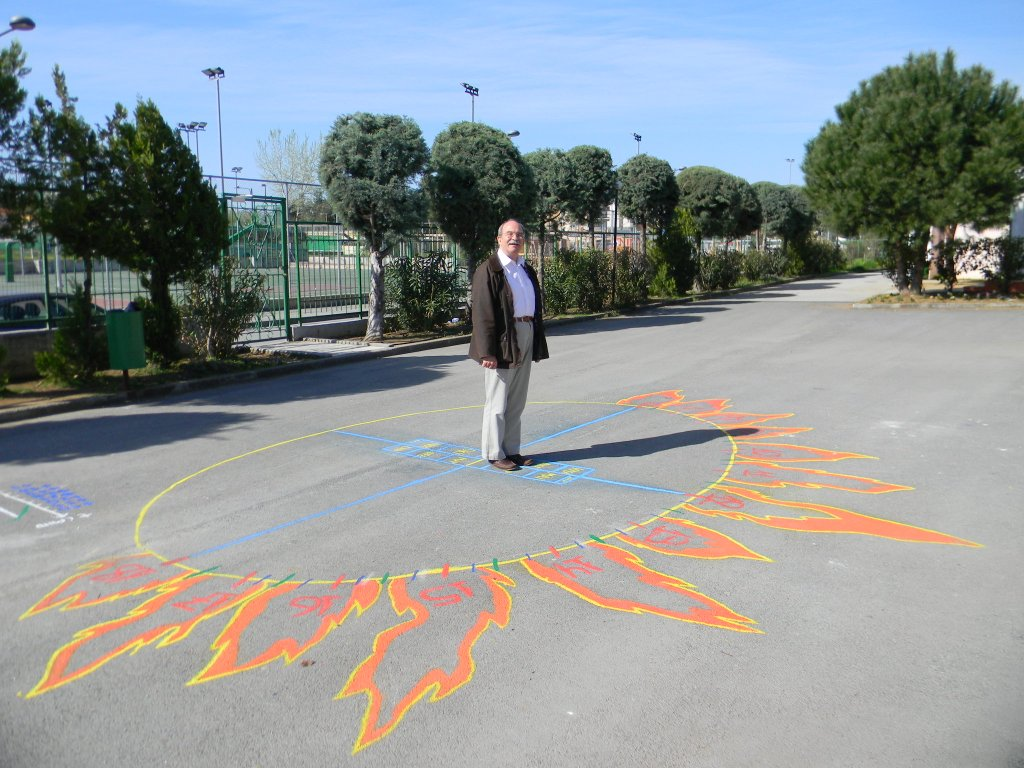 An anelemmatic sundial at 4 high school Drama, Greece